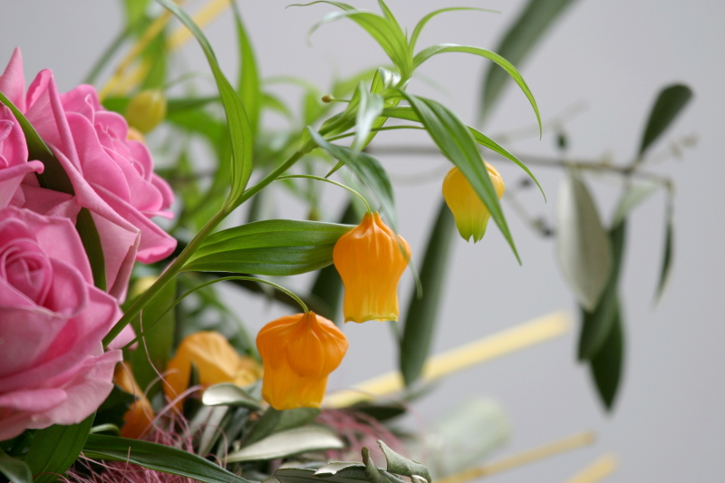 Sandersonia aurantiaca & others